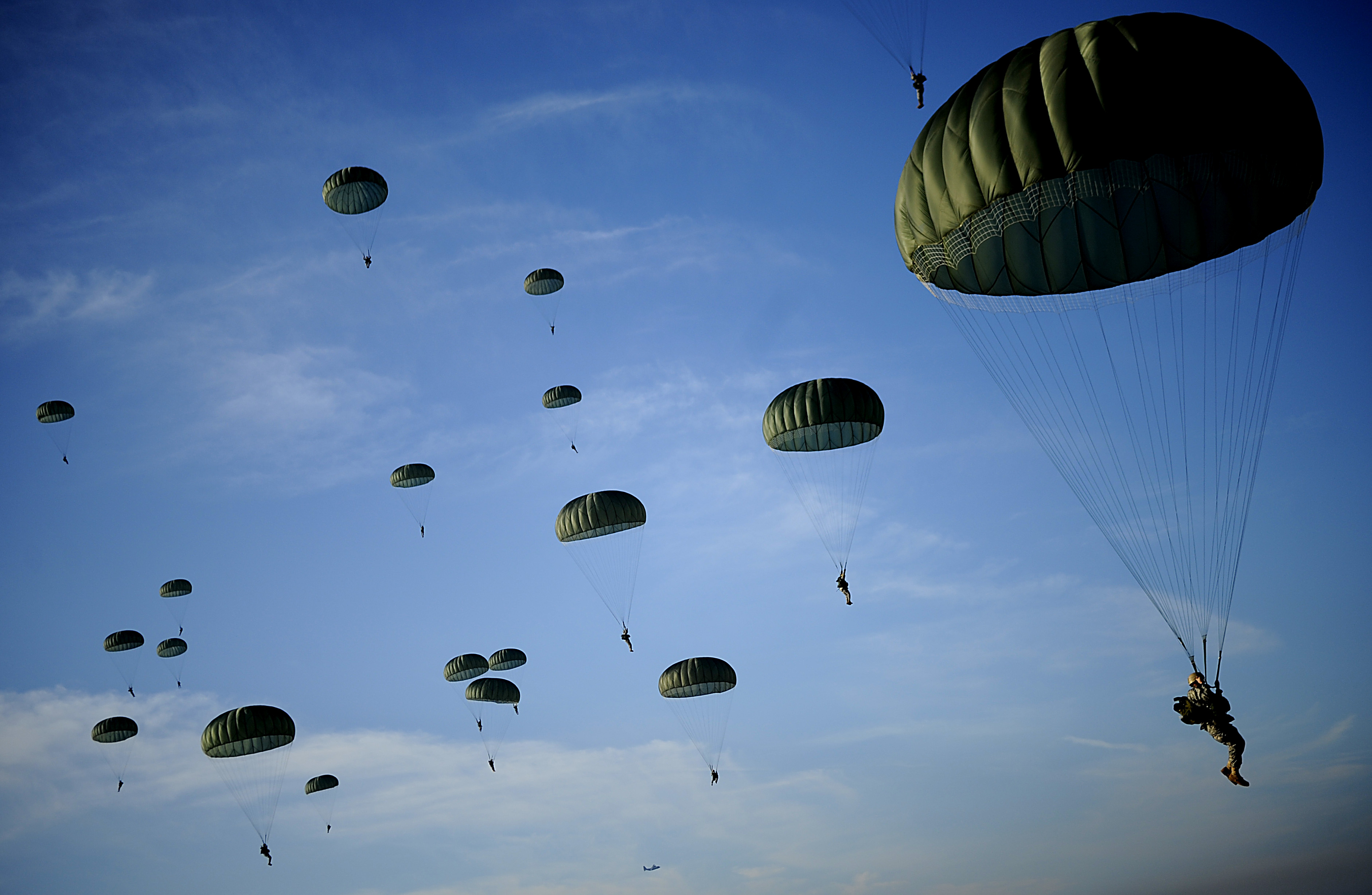 U.S. Army Soldiers with the 82nd Airborne Division descend under a parachute canopy to earn foreign jump wings during the 11th Annual Randy Oler Memorial Operation Toy Drop at Fort Bragg N.C., Dec. 6, 2008. This year's event was hosted by the U.S. Army Civil Affairs and Psychological Operations Command (Airborne) USACAPOC (A), with support by XVIII Airborne Corps, Fort Bragg and 43rd Airlift Wing, Pope air Force Base to boost unit morale while assisting families in need over the holidays. Over 1200 Soldiers donated a toy for a lottery ticket to win a chance to jump under a German or Irish Jumpmaster to earn their foreign jump wings.